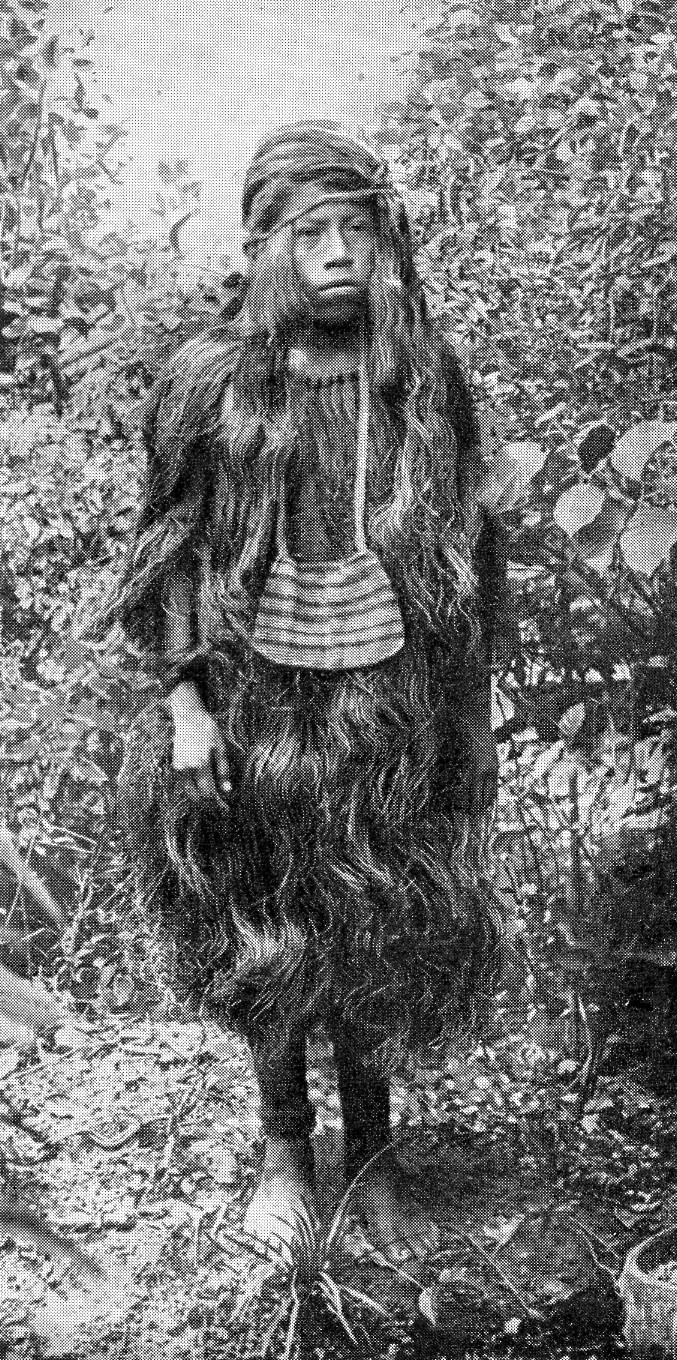 Yagua Indian